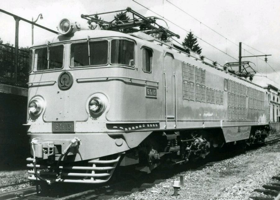 A China Railways 6Y2 electric locomotive, imported from France, on test in 1960.